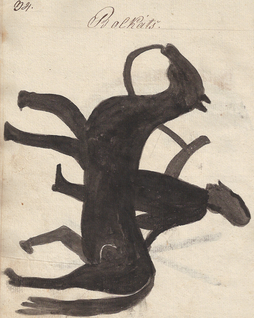 Cattle brand of Bulkesch/Bălcaciu/Bolkacs